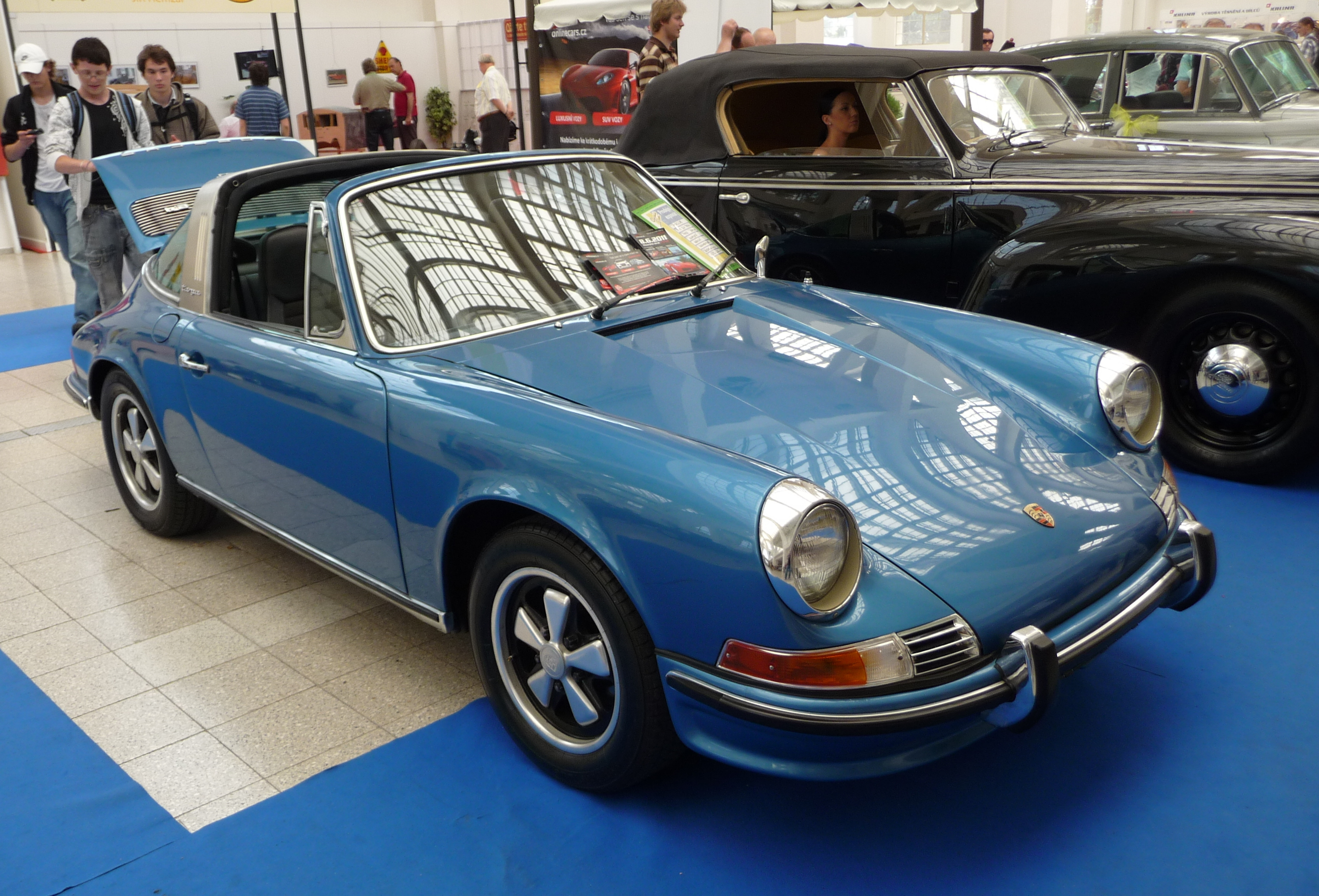 Automobile Porsche 911 Targa, Classic Show Brno 2011, The Brno Exhibition Grounds -10 -5 -3 -2 ◄ ► +2 +3 +5 +10